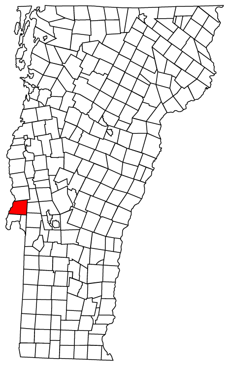 Map of Vermont towns with Benson highlighted